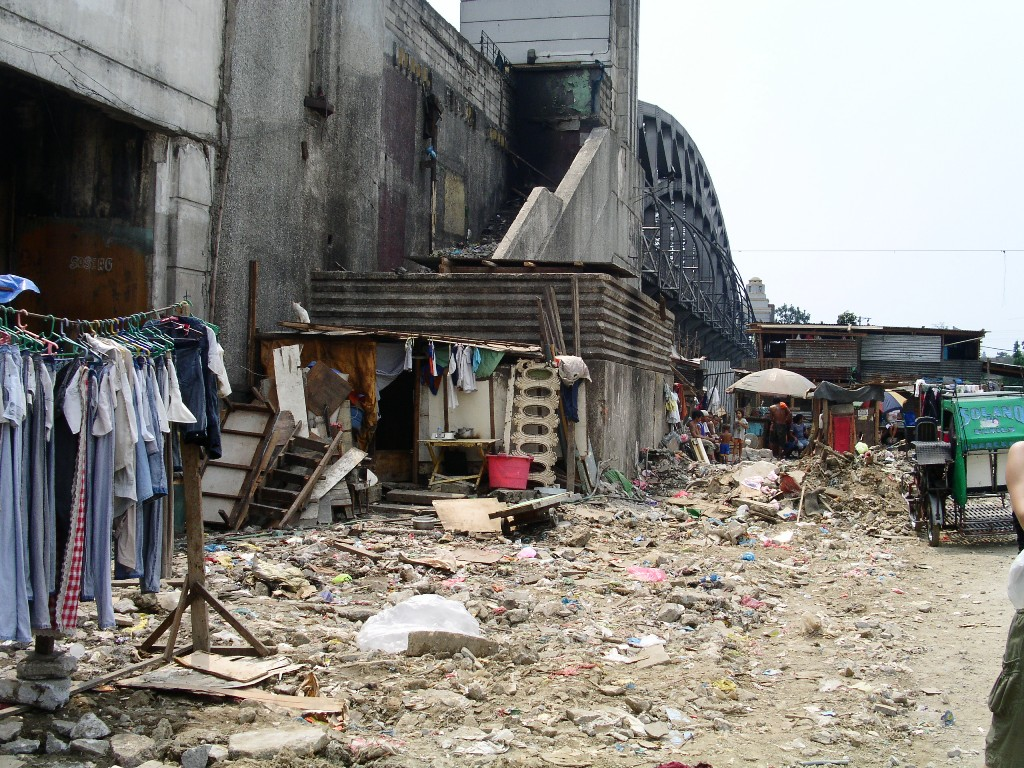 The people have built houses under the bridge and next to the bridge. There are no sanitation facilities or any kind of water supply. Photo by Philipp Feiereisen 2007 (during a geographical excursion 2007 of the University of Mainz).